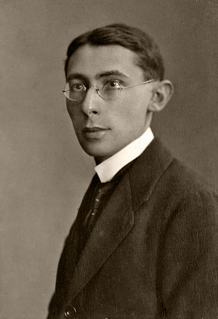 Picture of Hans Gál